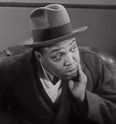 Percy Verwayne in Paradise in Harlem - cropped screenshot